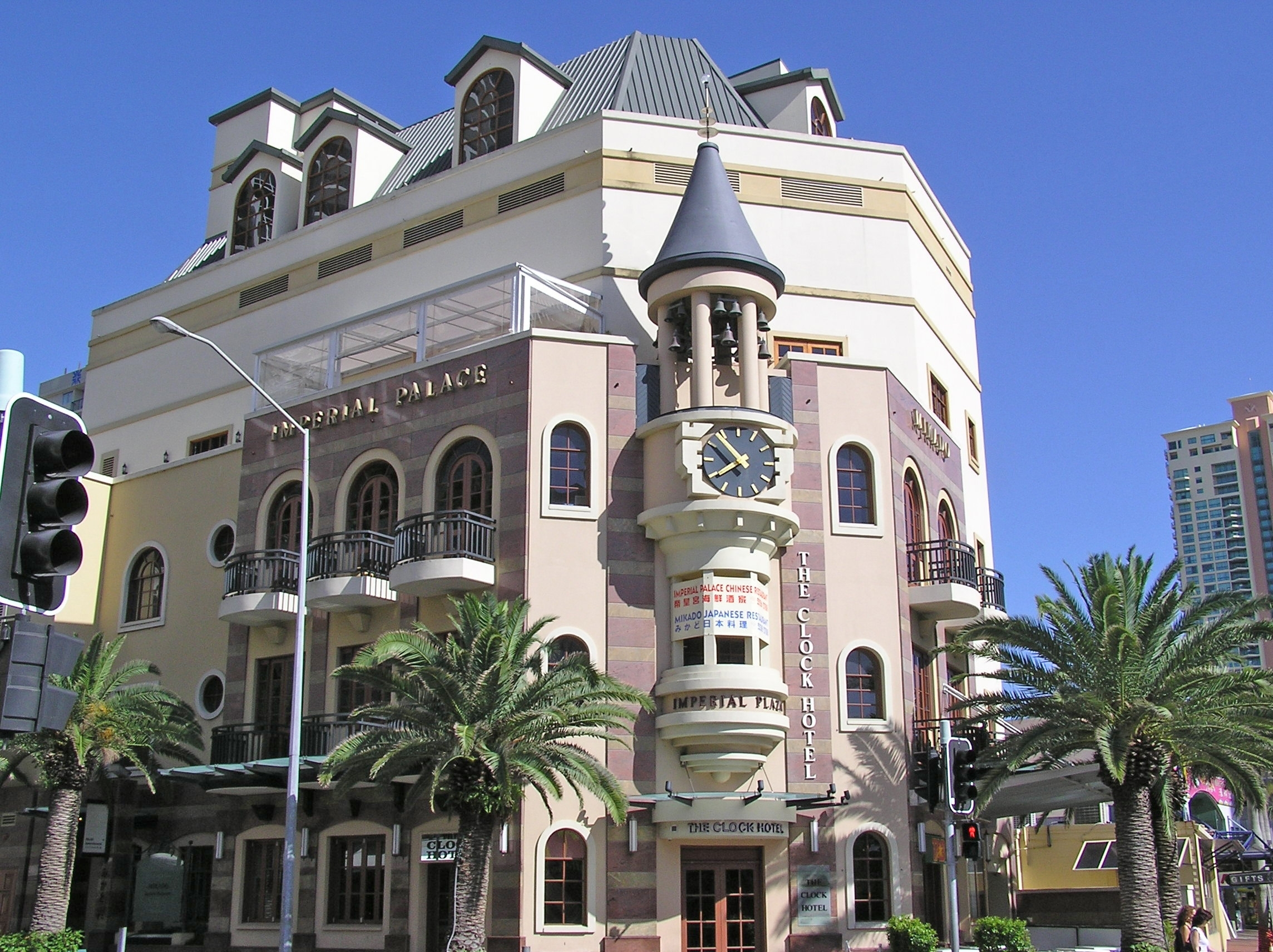 The Clock Hotel in the Corner of Elkhorn Avenue & Gold Coast WHY